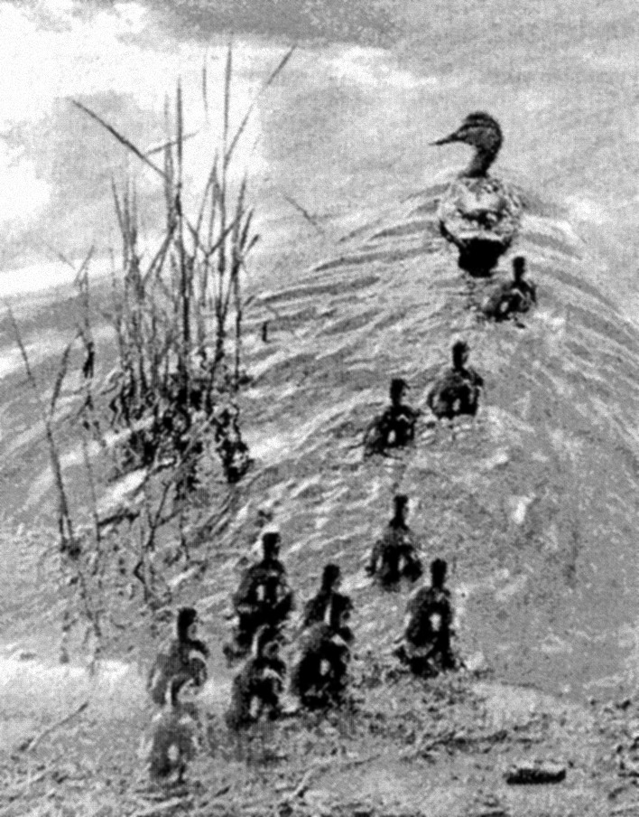 Erkki Niemelä: Tusina